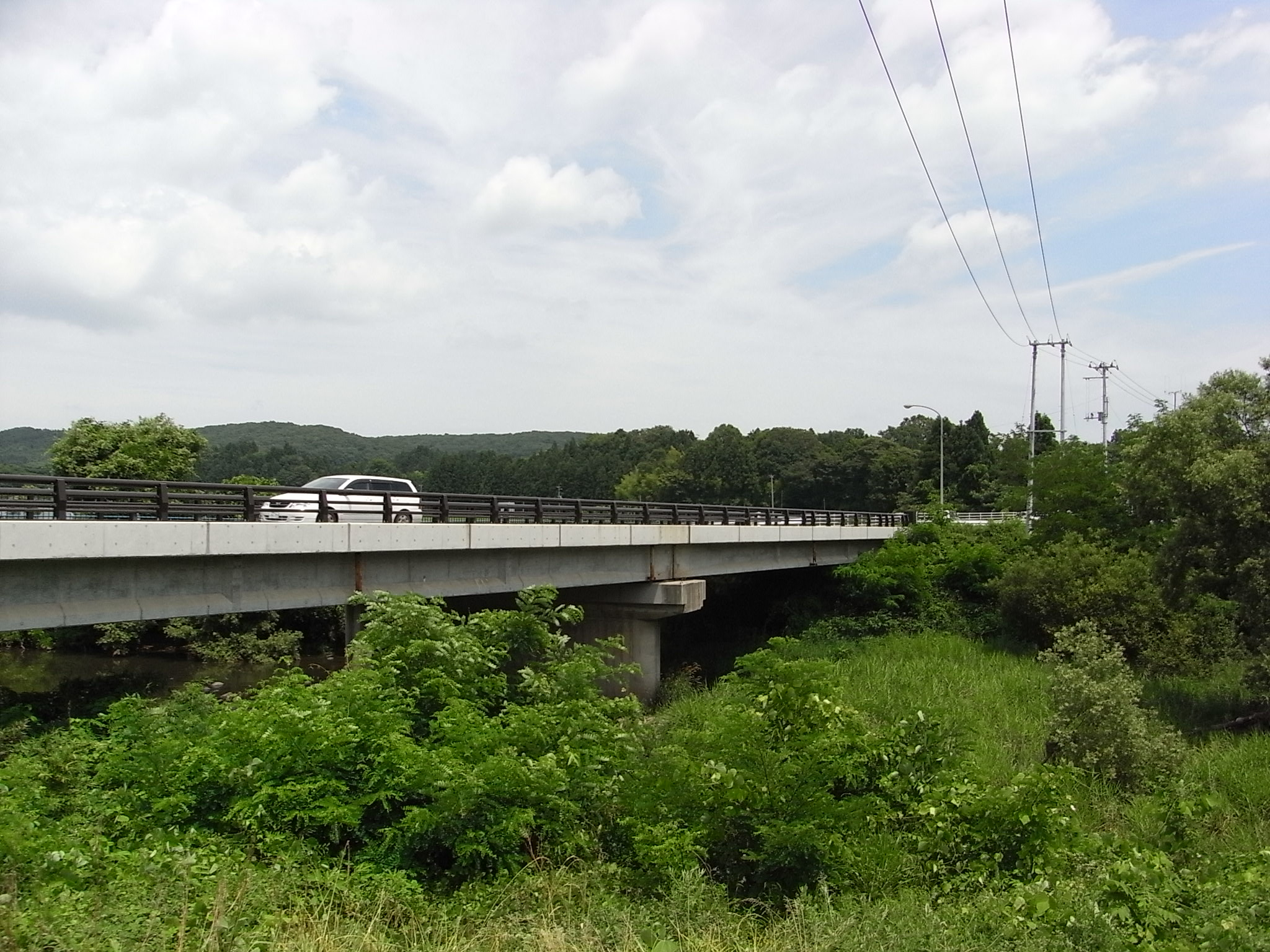 Hanage Bridge. Nanakita River. Sanezawa, Izumi ward, Sendai, Miyagi prefecture, Japan. Eastward.